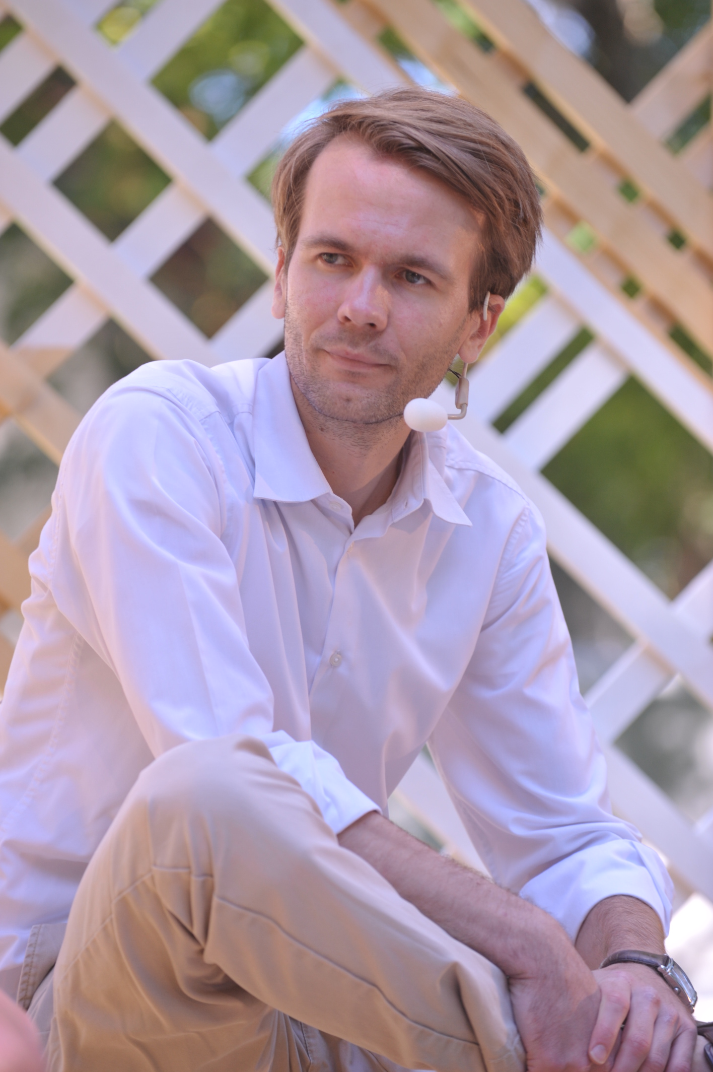 Allar Tankler Raadio 2 Arvamusfestivali otsesaates "Olukorrast riigist".